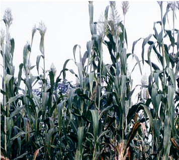 Guinea corn (Sorghum bicolor) – photo taken in northeastern Nigeria presumably